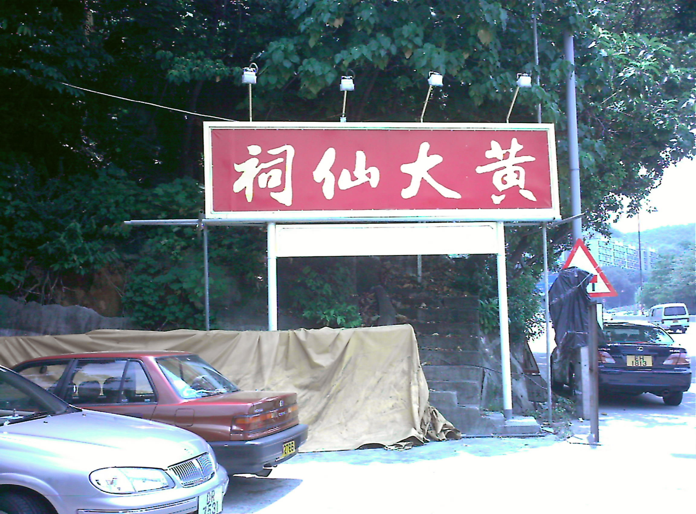 Wong Tai Sin Yuen Ching Kwok, a Taoist Temple in Area 3738 of Ching Chung Road, Kowloon, Hong Kong 中文（香港）: 黃大仙元清閣，位于香港，九龍，龍祥道 3738號地段的道觀。